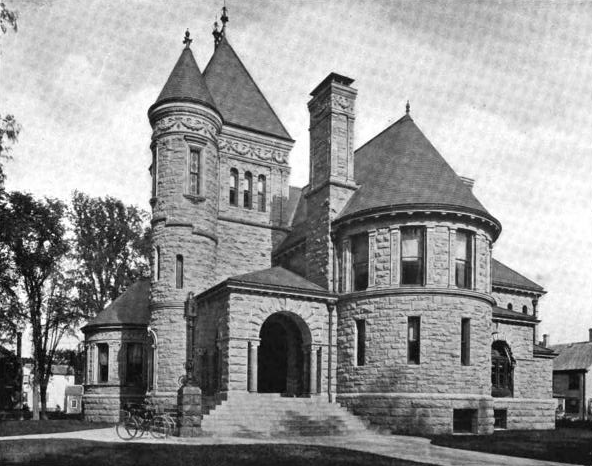 Millicent Library — Fairhaven, Massachusetts (1899). The 1893 stone building was designed in the Richardson Romanesque style. On the National Register of Historic Places in Bristol County.